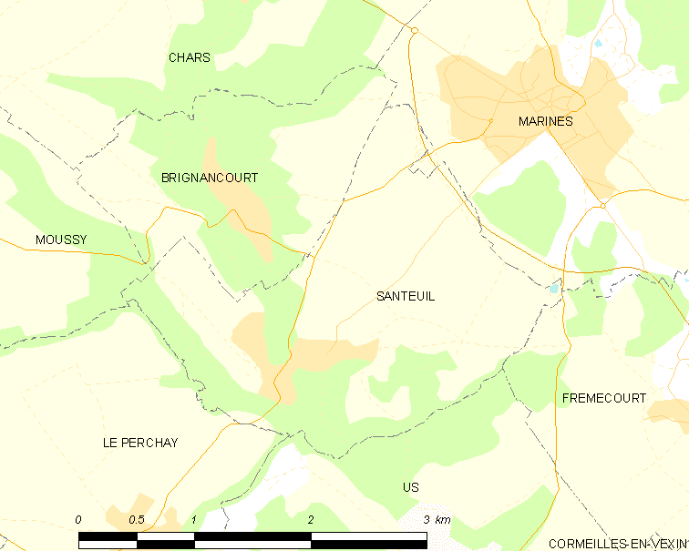 Map of French municipality Santeuil